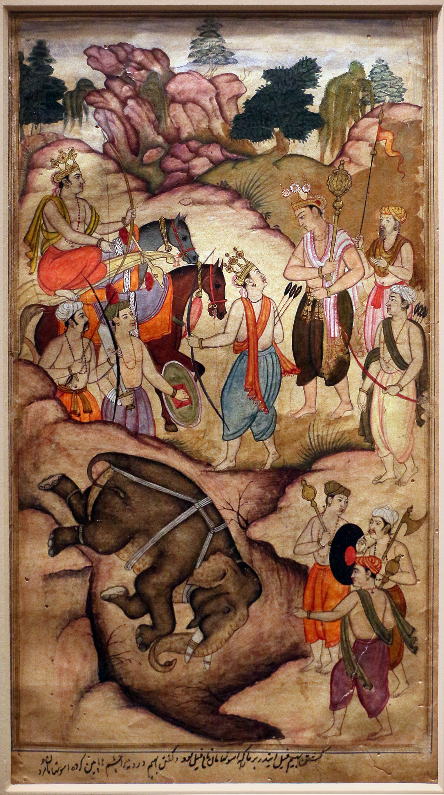 Islamic art in the Cincinnati Art Museum. It is episode of Razmnama of Akbar made during 1598-99 A.D. This is episode of Drona-parwa. Bhima kill elephant of king Indrabrahma named ashwastham. In black nasliq write "kushtan-i bhim fil-i indra- bra[h]ma-ra ka asvathaman nam-i fil buvad u kuftan-i bhim drdth-ra. Chashmha pain karda, asvathaman murd"